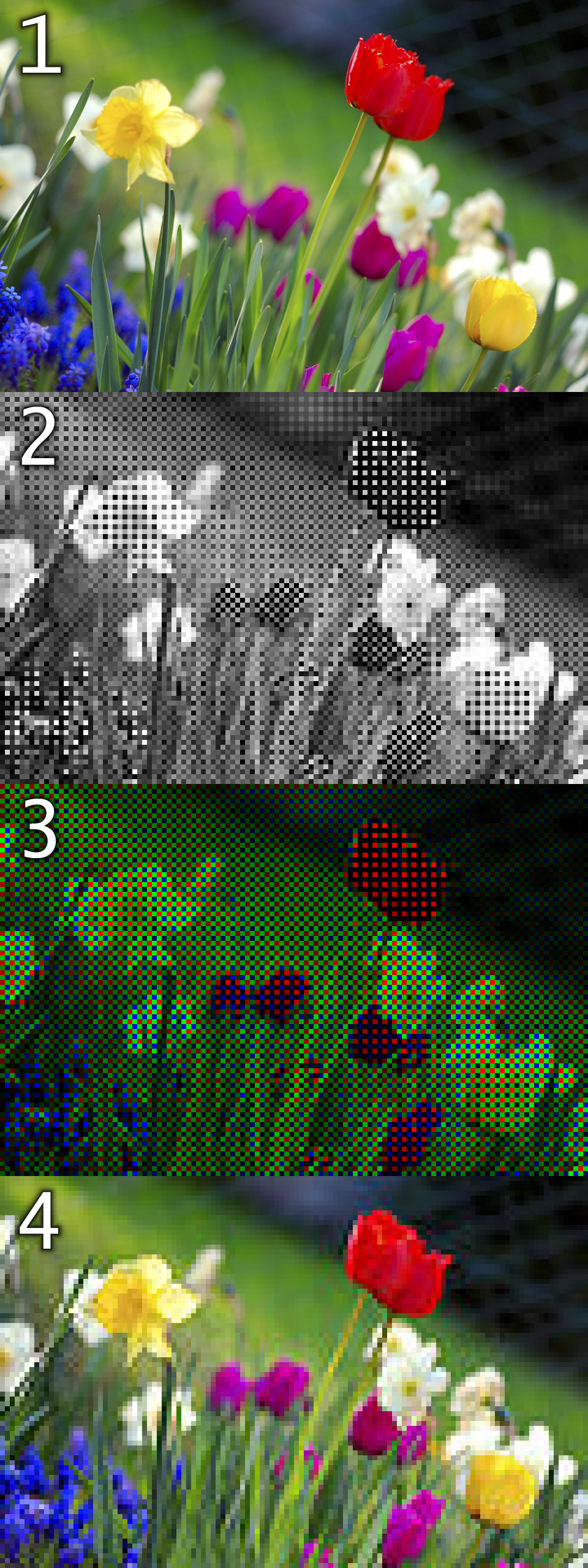 1. The original scene of a garden with some tulips and narcissus. 2. The response of a 120-pixel × 80-pixel sensor with a Bayer filter in a digital camera. 3. The response colour-coded with the Bayer filter colours. 4. The reconstructed image after interpolating the missing colour information.